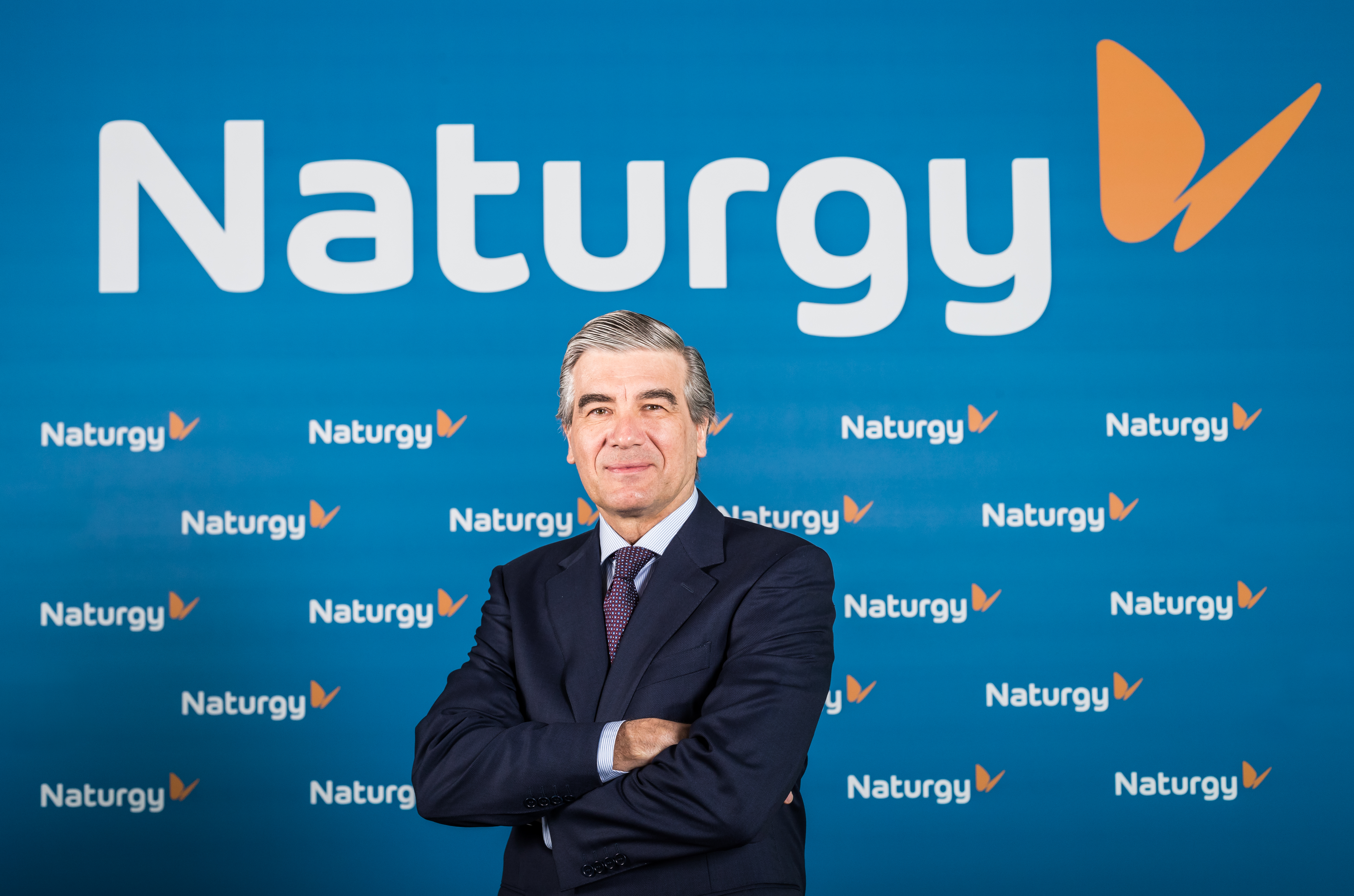 Francisco Reynés with the company’s new logo